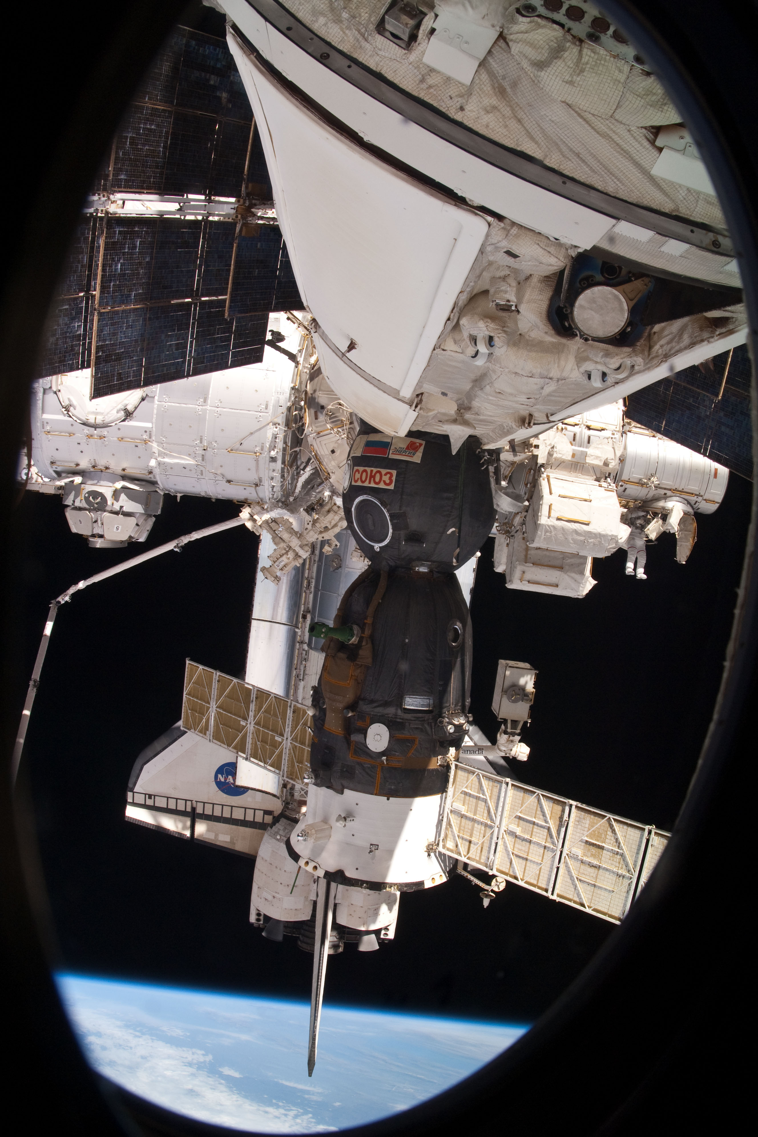 Dwarfed by components of the International Space Station, NASA astronaut Rick Mastracchio (right center), STS-131 mission specialist, is seen working near the Quest airlock during the mission's third and final session of extravehicular activity (EVA) as construction and maintenance continue on the orbital complex. During the six-hour, 24-minute spacewalk, Mastracchio and astronaut Clayton Anderson (out of frame), mission specialist, hooked up fluid lines of the new 1,700-pound tank, retrieved some micrometeoroid shields from the Quest airlock's exterior, relocated a portable foot restraint and prepared cables on the Zenith 1 truss for a spare Space to Ground Ku-Band antenna, two chores required before space shuttle Atlantis' STS-132/ULF-4 mission in May. Also featured in the image are a docked Russian Soyuz spacecraft and space shuttle Discovery.